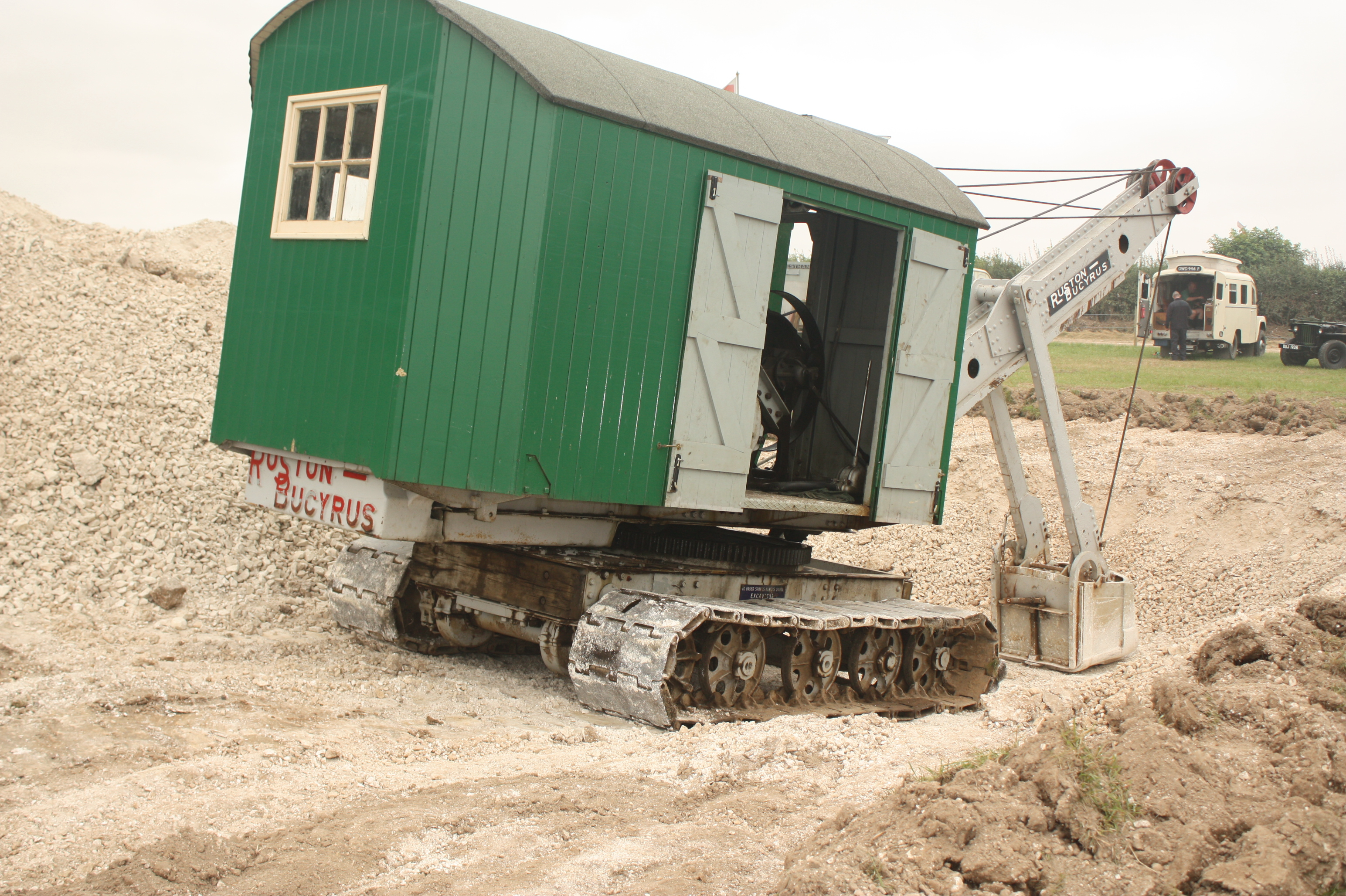 Ruston-Bucyrus No. 4 type faceshovel excavator of 1931, working at the Great Dorset Steam Fair in the construction plant demonstration area in 2008